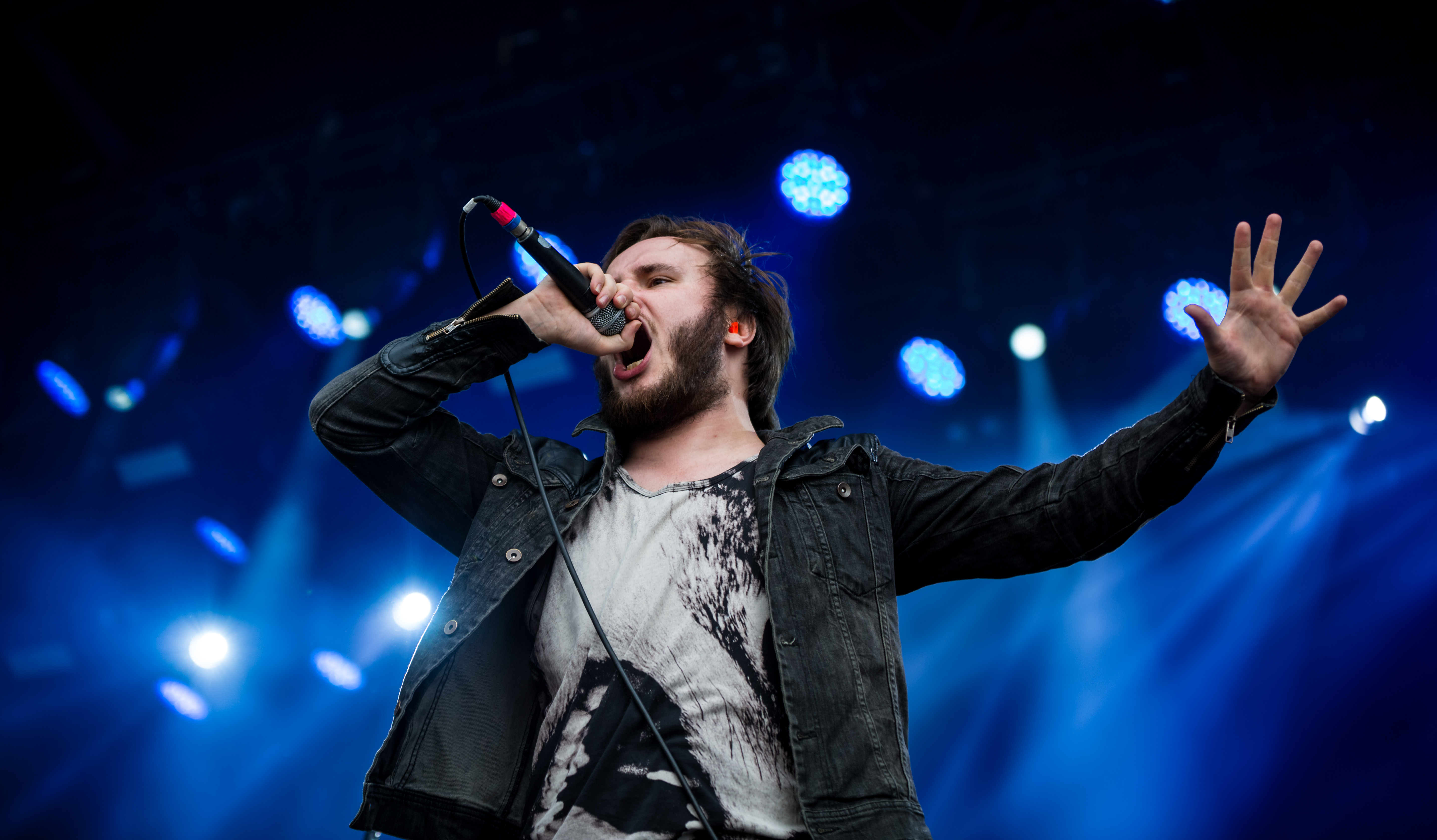 As Lions - Rock am Rimg 2017